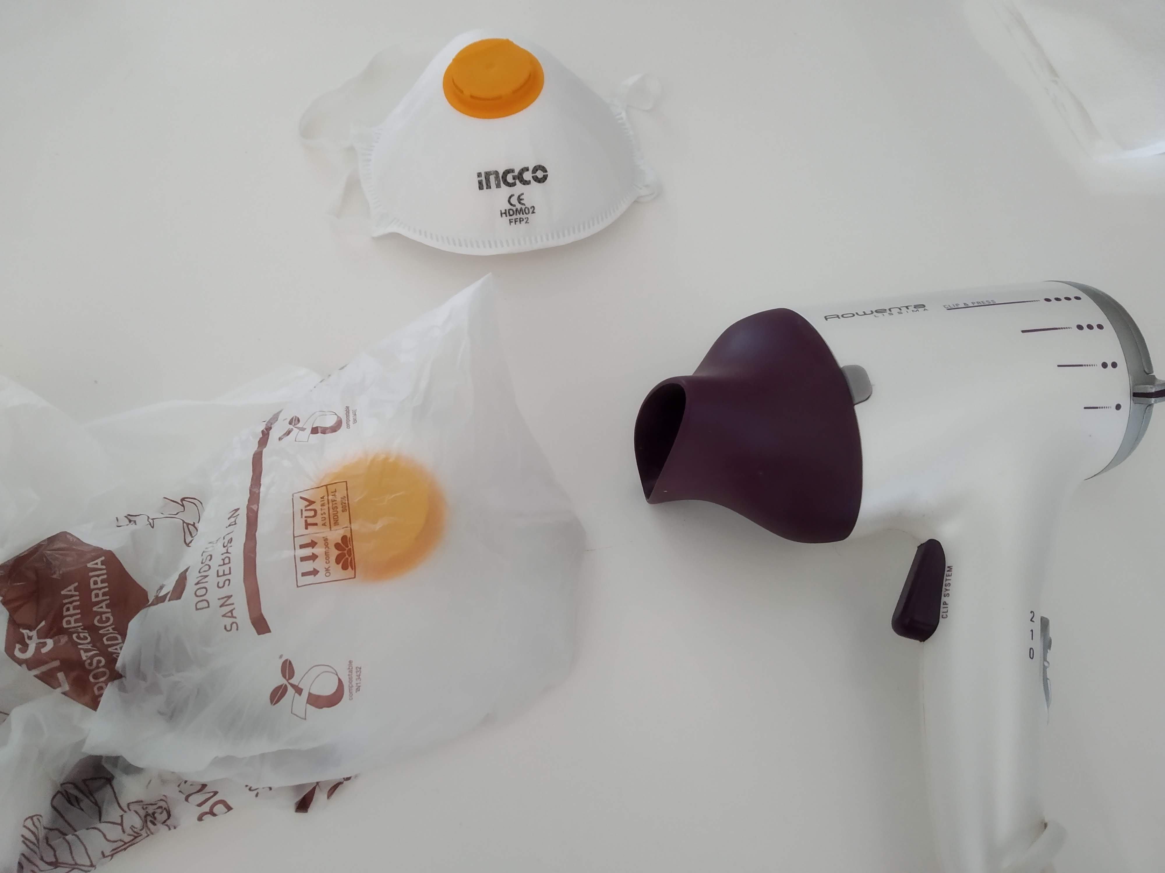 FFP2 respirators and the way to sanitize them for reuse: put them in some recipient and use dryer with maximum heat